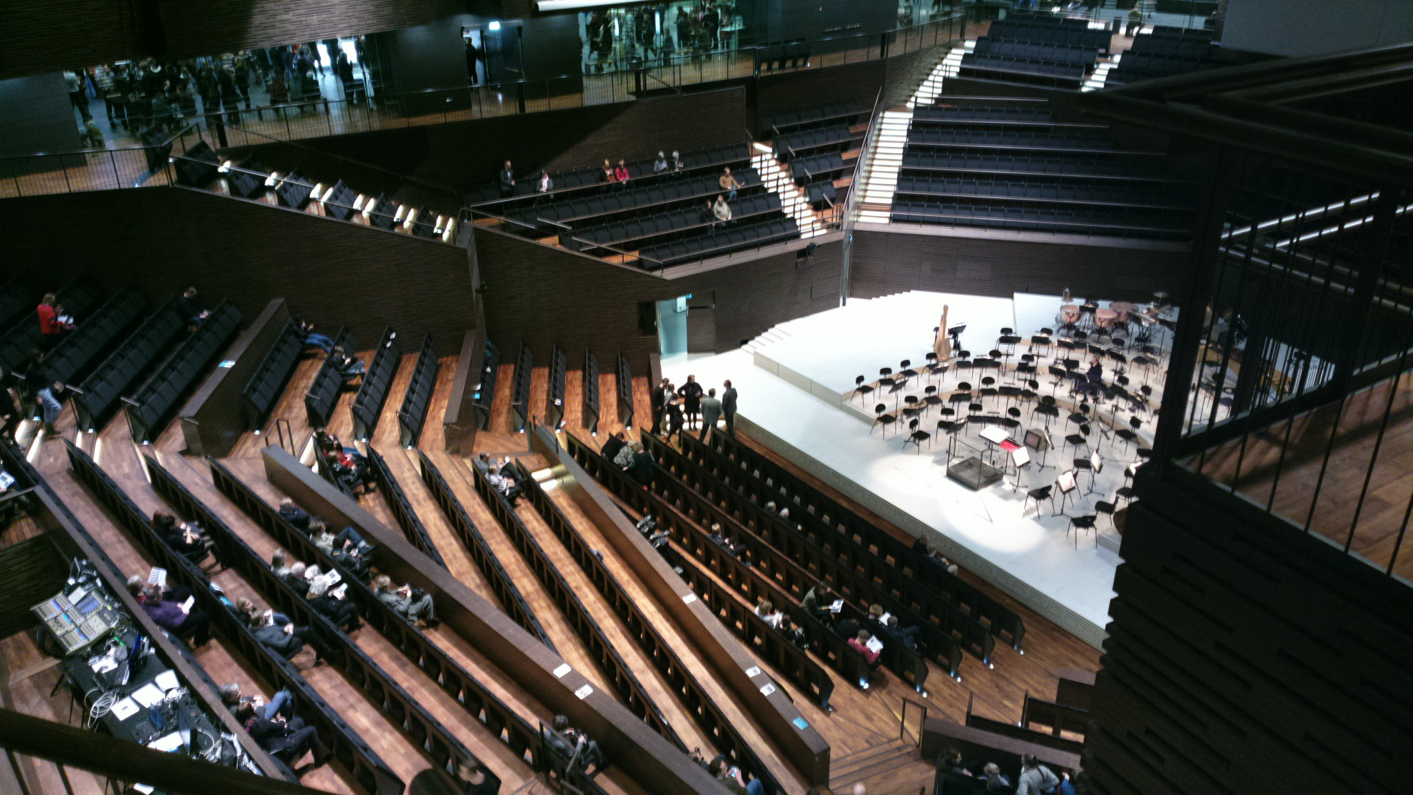 inside view of the concert hall of Musiikkitalo – Helsinki Music Centre